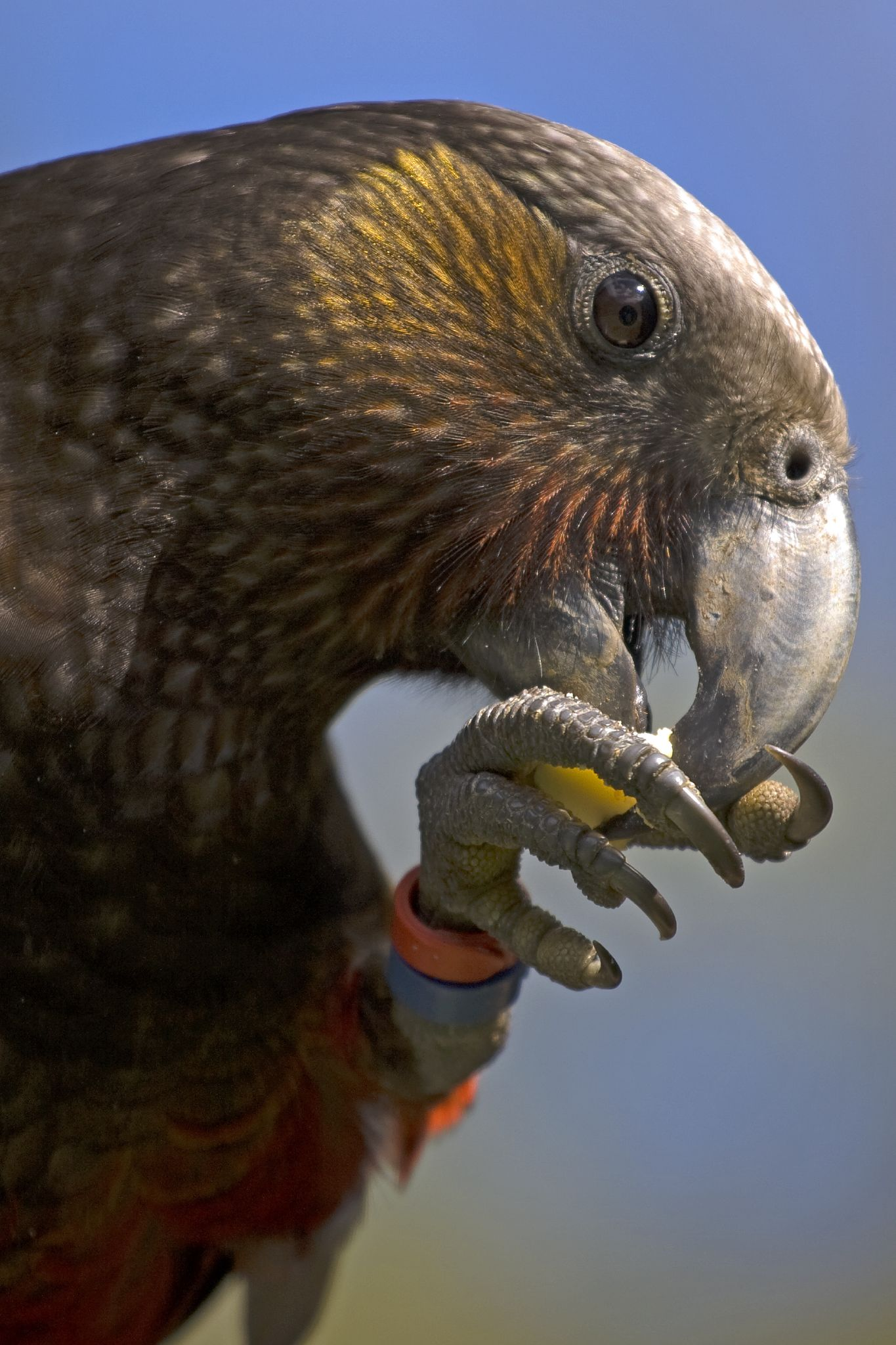 Nestor meridionalis, North Island Kākā, using, in typical parrot fashion, its foot to hold its food while it eats.